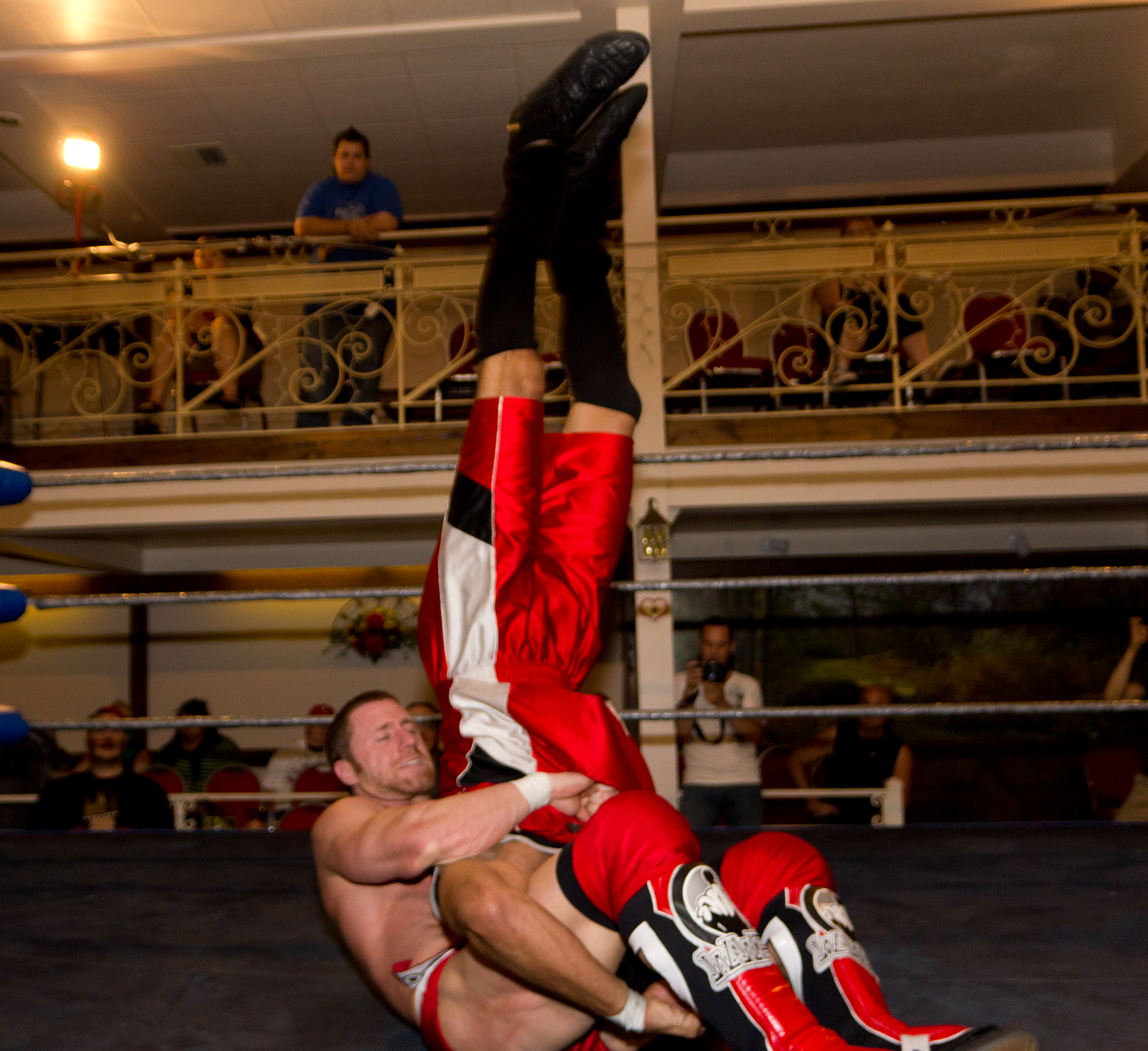 Petey Williams hitting his Canadian Destroyer (Front flip piledriver) finisher on Brent Banks